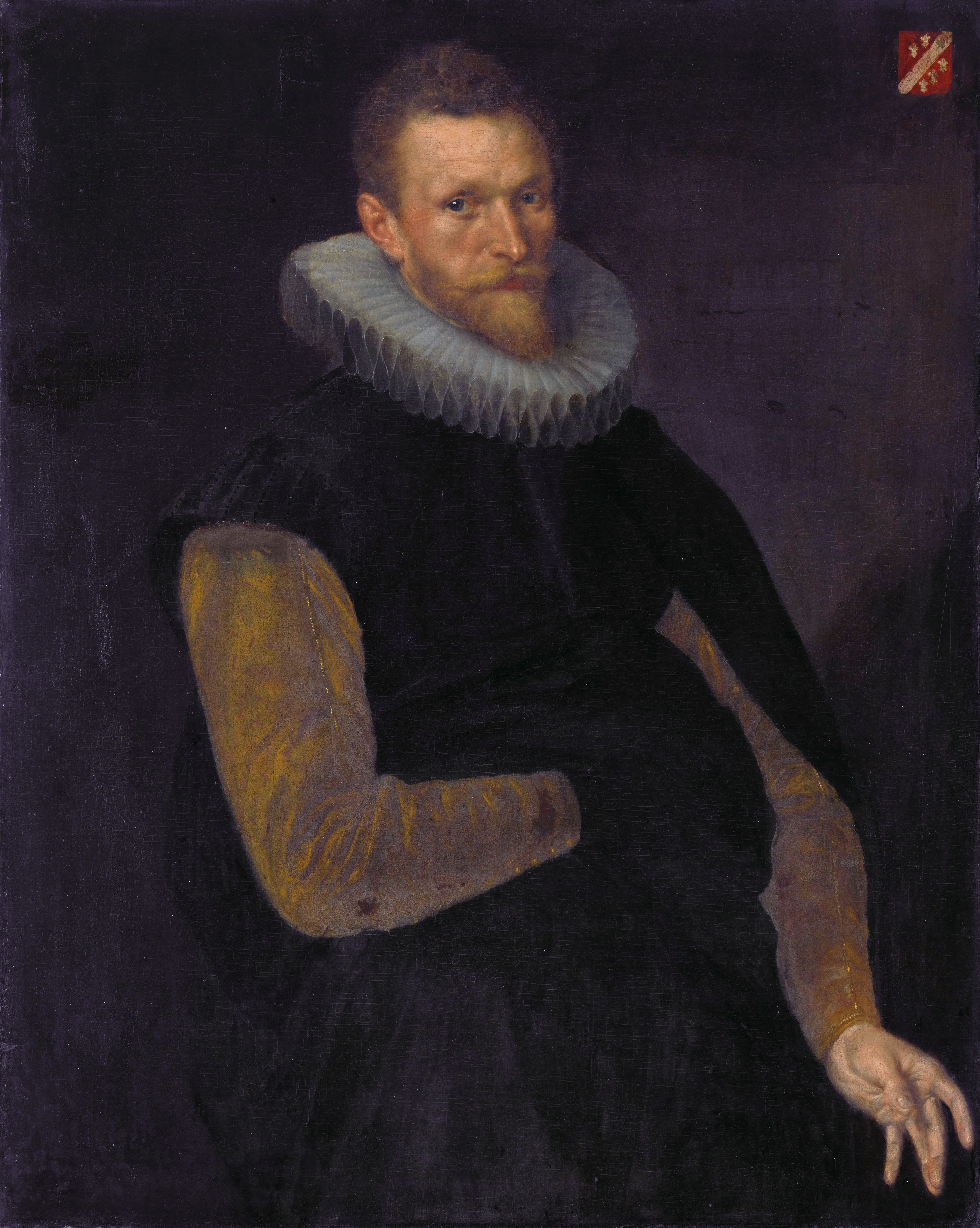 Pendant of File:Cornelis Ketel 002.jpg